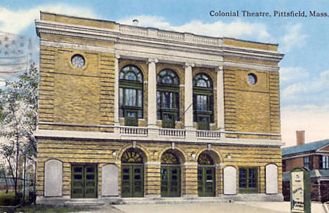 Pittsfield, Mass Colonial Theatre Published By: Chas. W. Hughes, Mechanicville, N.Y. Postmarked: Saint Johnsville, N.Y., Mar 23, 1918.